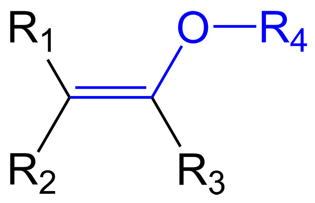 Enol ether